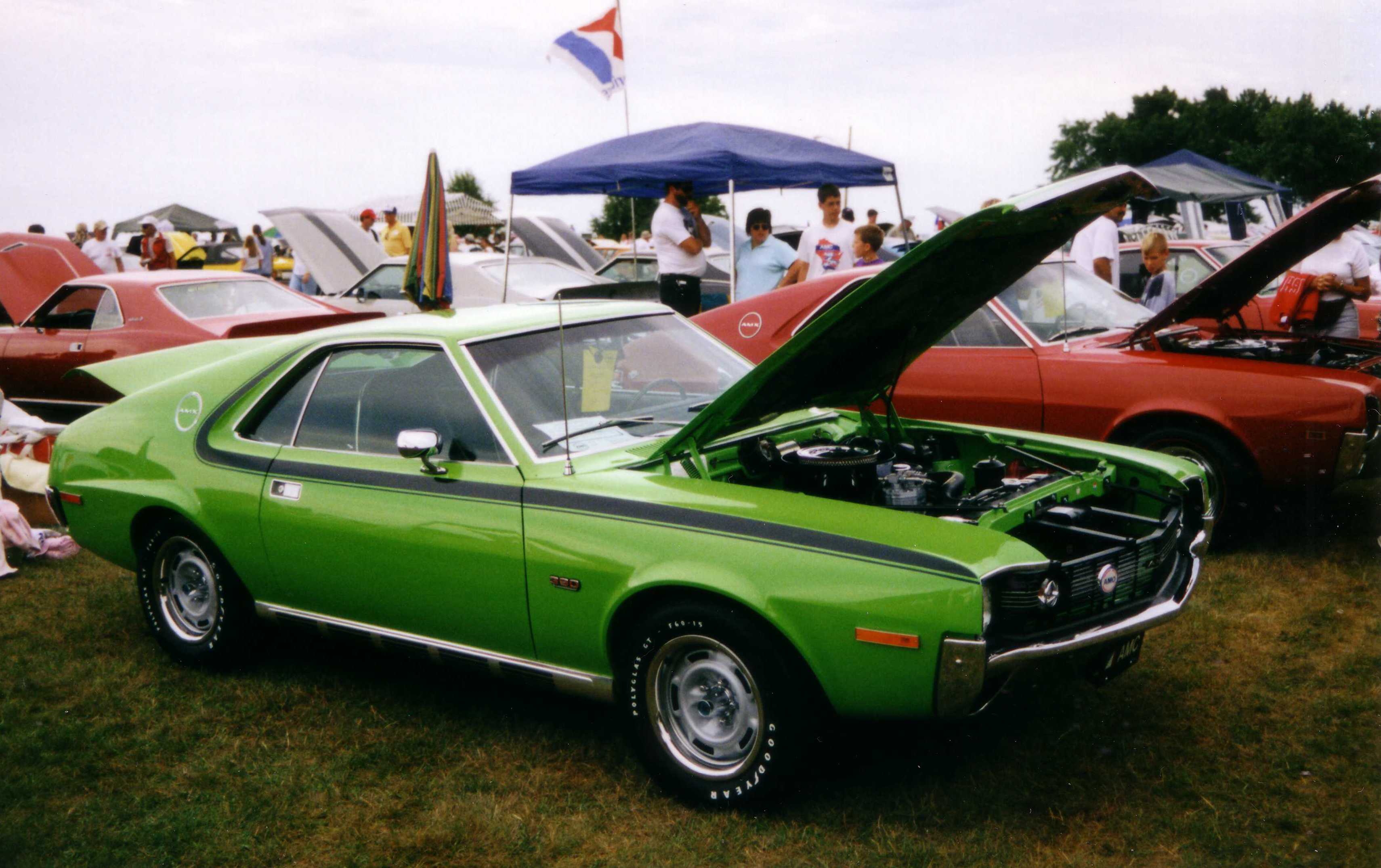 Exterior view of a 1970 AMC (American Motors Corporation) AMX sports coupe finished in Big Bad Green (BBG) with a black C-stripe. This car has the 390 CID (6.4 L) engine and the "Machine" 15-inch wheels.